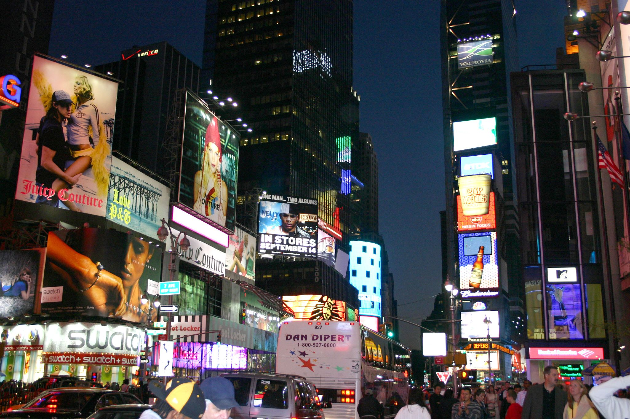 Times Square, New York at night